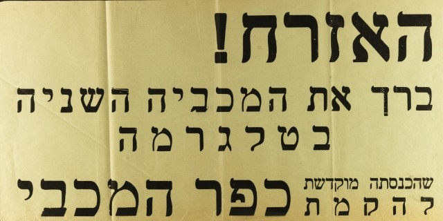 The Second Maccabiah Poster